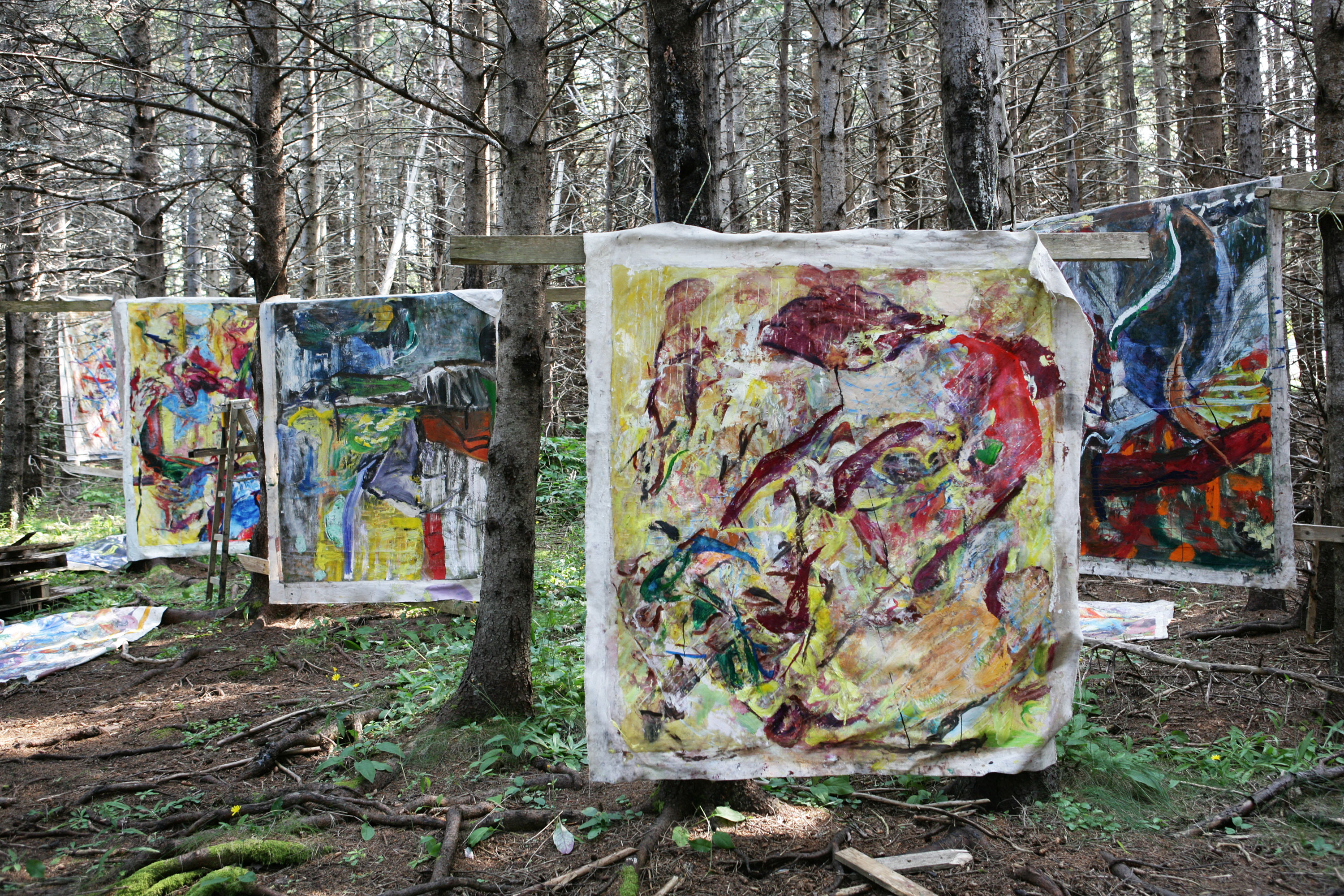 John Beardmans Studio in the Woods in Cape Breton